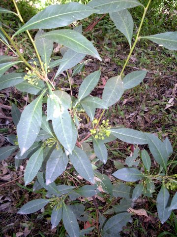 Dodonaea triquetra at Brush Farm, Eastwood